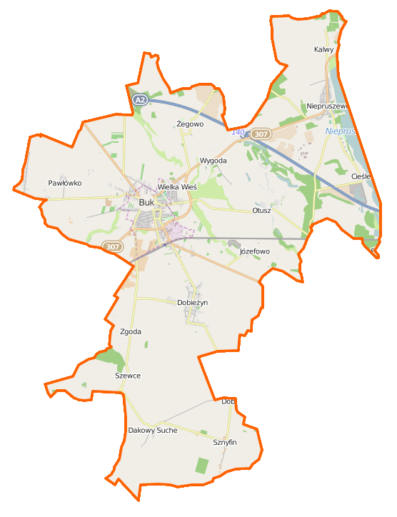 Map of Gmina Buk, Poland This map of Buk (gmina) was created from OpenStreetMap project data, collected by the community. This map may be incomplete, and may contain errors. Don't rely solely on it for navigation. Border coordinates52.416716.4462←↕→16.636752.2648